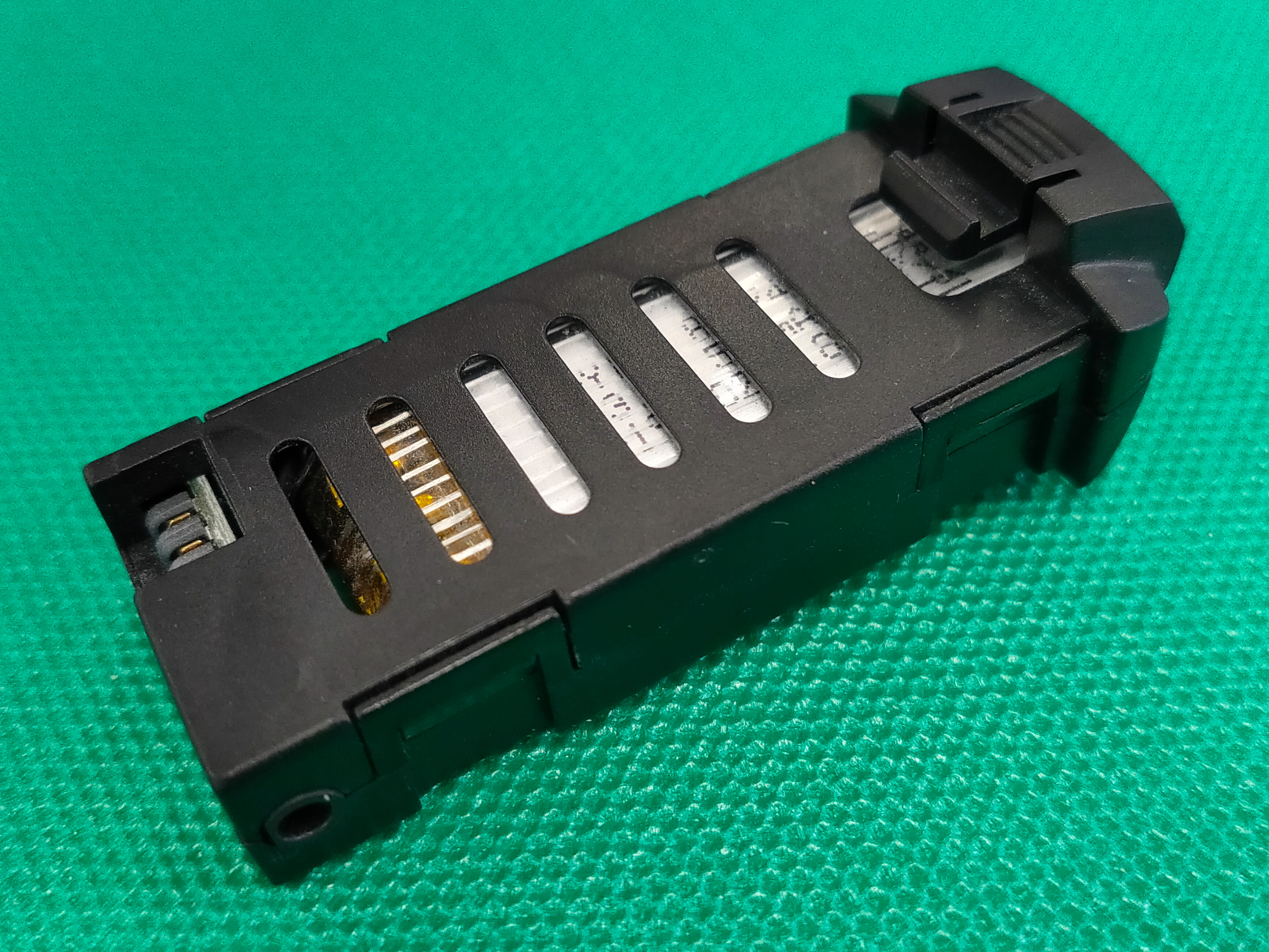 Lithium polymer battery